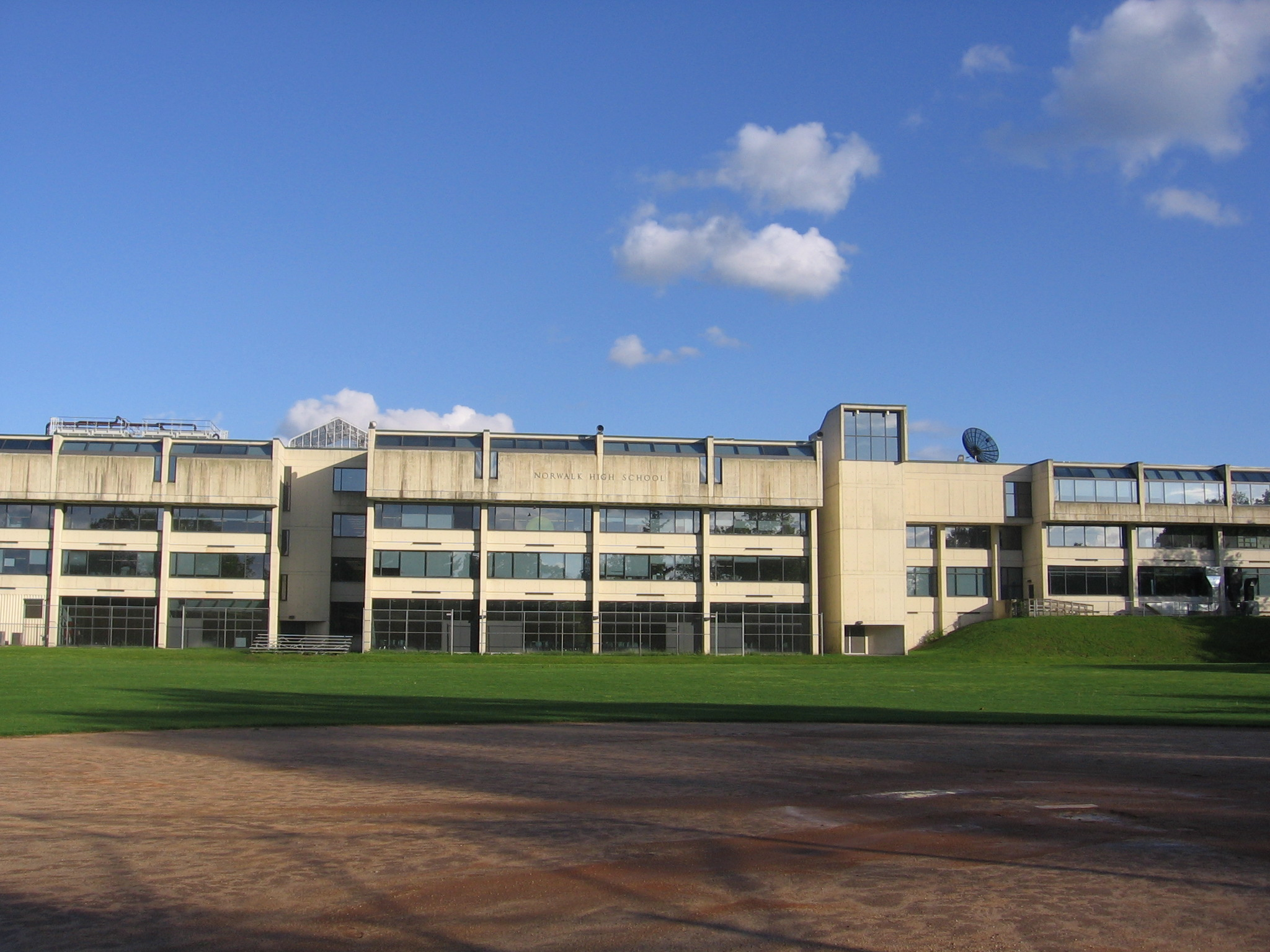 The northwest elevation of Norwalk High School seen looking southeast from the Ray Barry softball field at the corner of County Street and Strawberry Hill Avenue in Norwalk, Connecticut, USA.